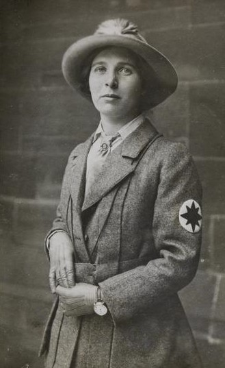 Gertrude Mary Powicke guess date